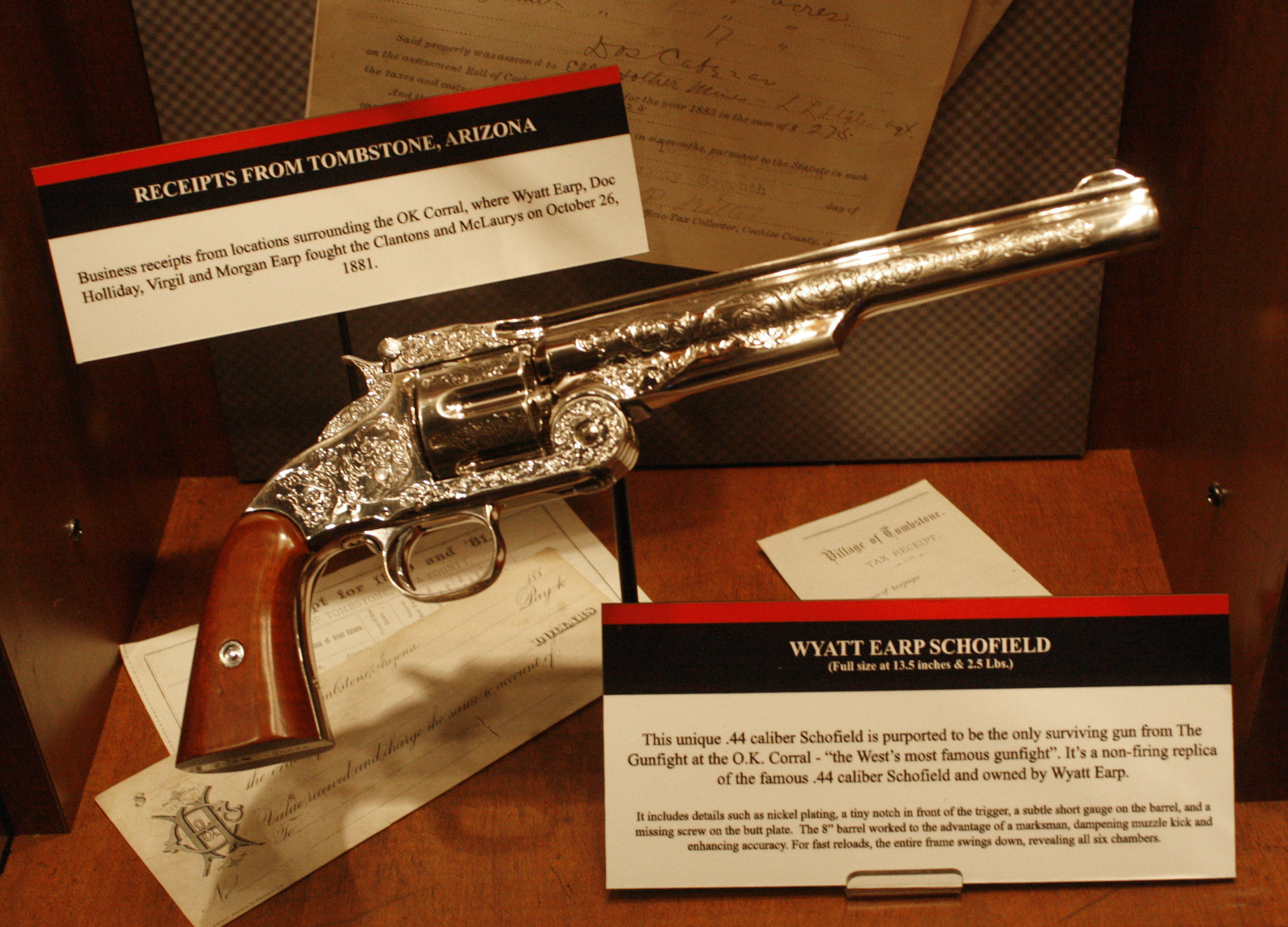 Wyatt Earp .44 caliber Schofield and receipts from Tombstone, Arizona displayed at the National Museum of Crime and Punishment in Washington, D.C. “ Wyatt Earp Schofield (Full size at 13.5 inches & 2.5 Lbs.) This unique .44 caliber Schofield is purported to be the only surviving gun from the Gunfight at the O.K. Corral - "the West's most famous gunfight". It's a non-firing replica of the famous .44 caliber Schofield and owned by Wyatt Earp. It includes details such as nickel plating, a tiny notch in front of the trigger, a subtle short gauge on the barrel, and a missing screw on the butt plate. The 8" barrel worked to the advantage of a marksman, dampening muzzle kick and enhancing accuracy. For fast reloads, the entire frame swings down, revealing all six chambers. ” “ Receipts from Tombstone, Arizona Business receipts from locations surrounding the OK Corral, where Wyatt Earp, Doc Holliday, Virgil and Morgan Earp fought the Clantons and McLaurys on october 26, 1881. ”